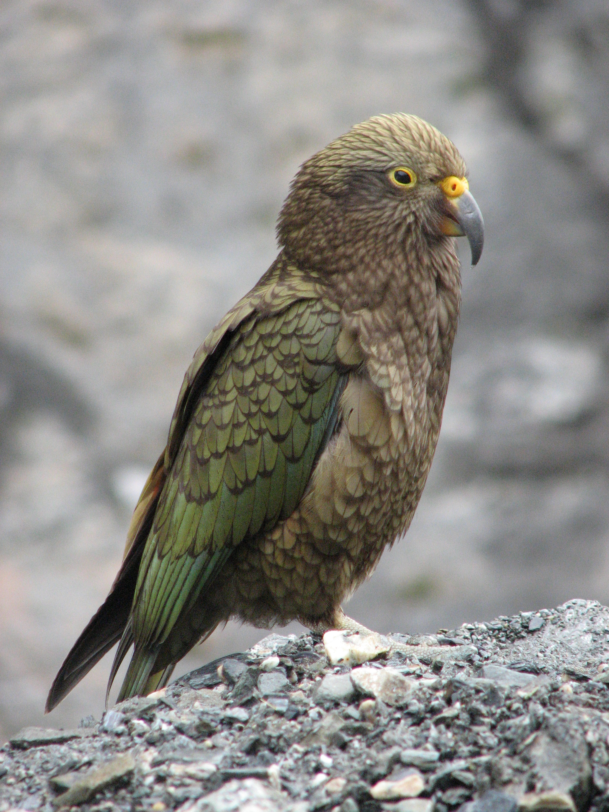 A juvenile Kea (Nestor notabilis) perching on some rubble on the Franz Josef Glacier, New Zealand.